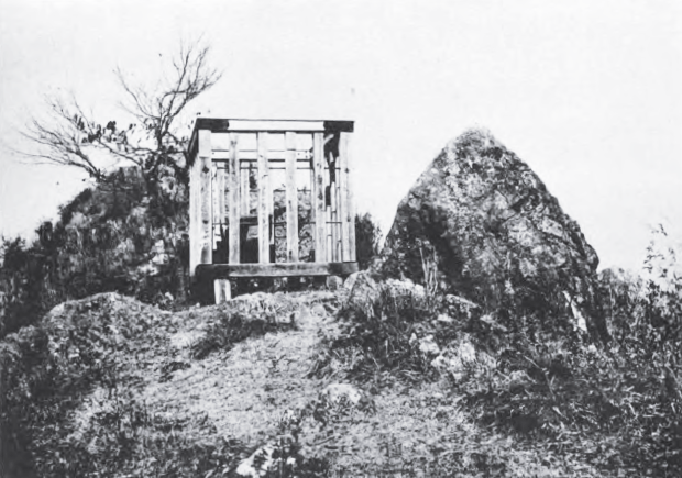 A small shrine or hokora at the peak of Mount Moriya (守屋山) in Nagano Prefecture during the early 20th century.